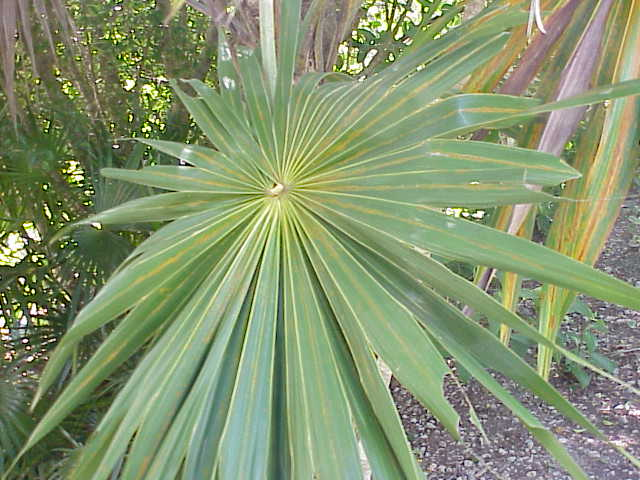 Species: Thrinax radiata Family: Palmae Image No. 2